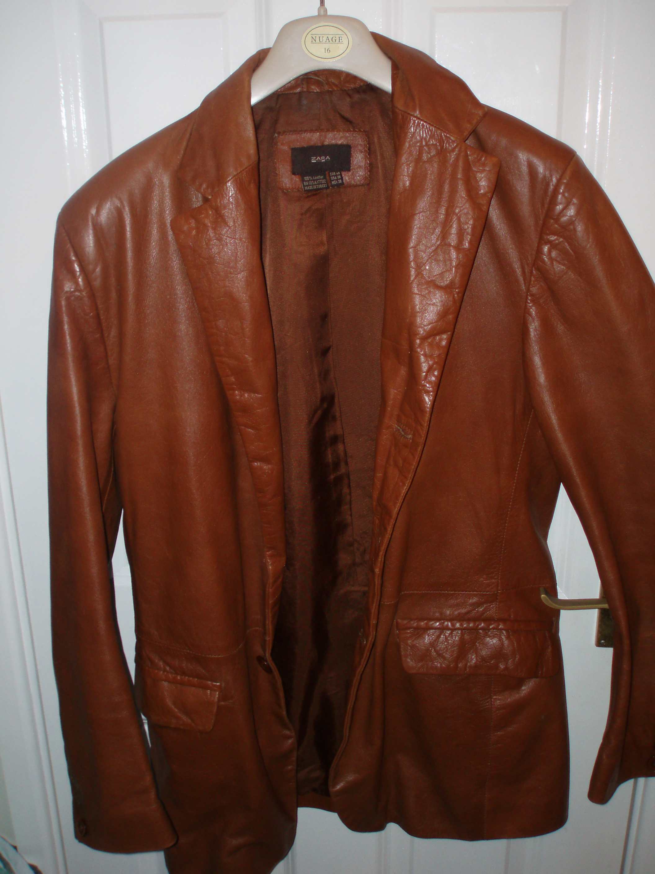 Tan leather jacket.